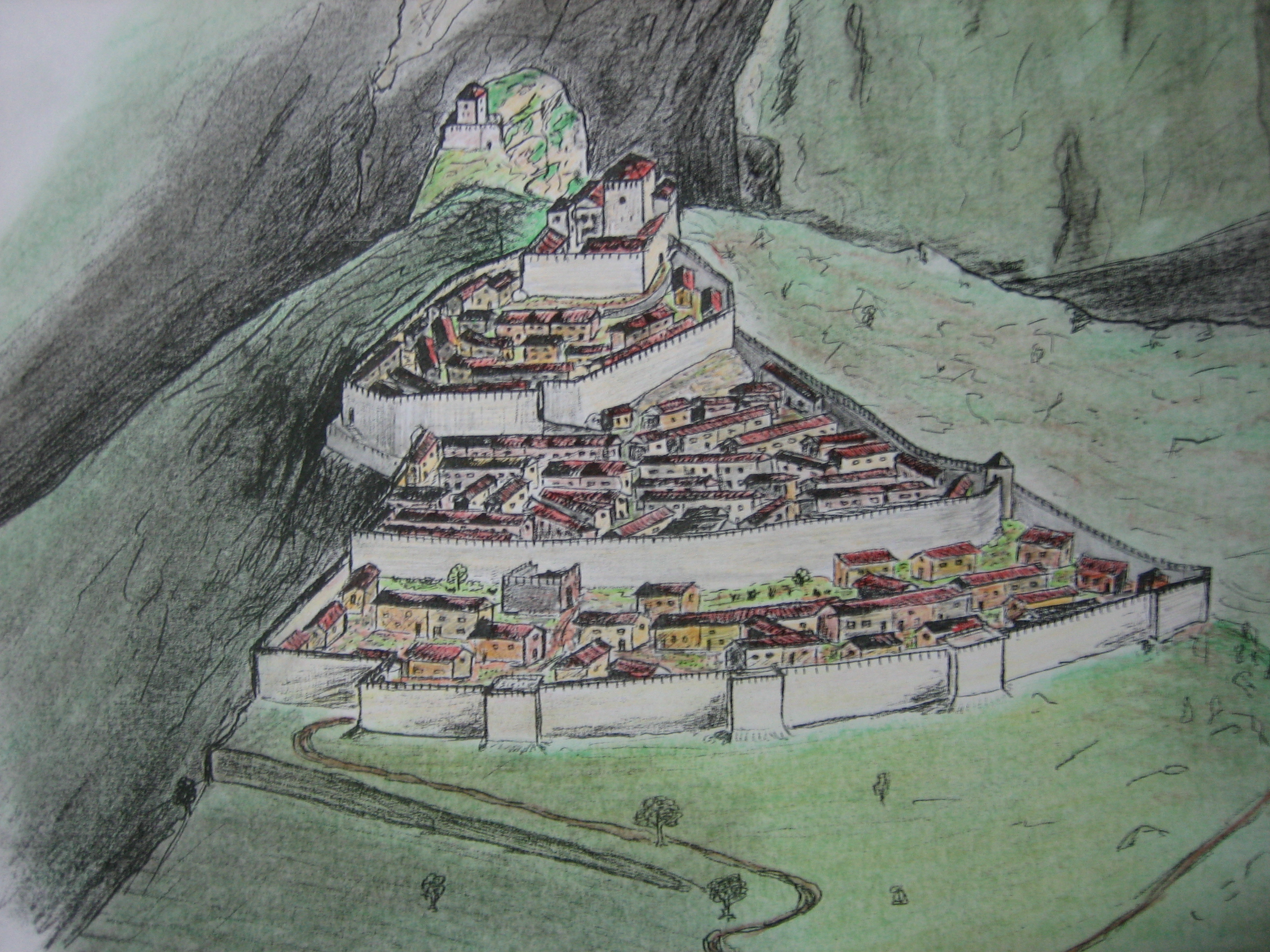 Original drawing aiming at trying to imagine things wich were at Termes (Aude, France), before the siege of Termes during the Albignsian crusade. Beginning from aerial photographs of the site, and the chronicals wich describes Termes in 1210, the author tried to represent things. With other drawings, this one helped Lionel DUIGOU to make drawings for the exhibition "1210, the siège of Termes".